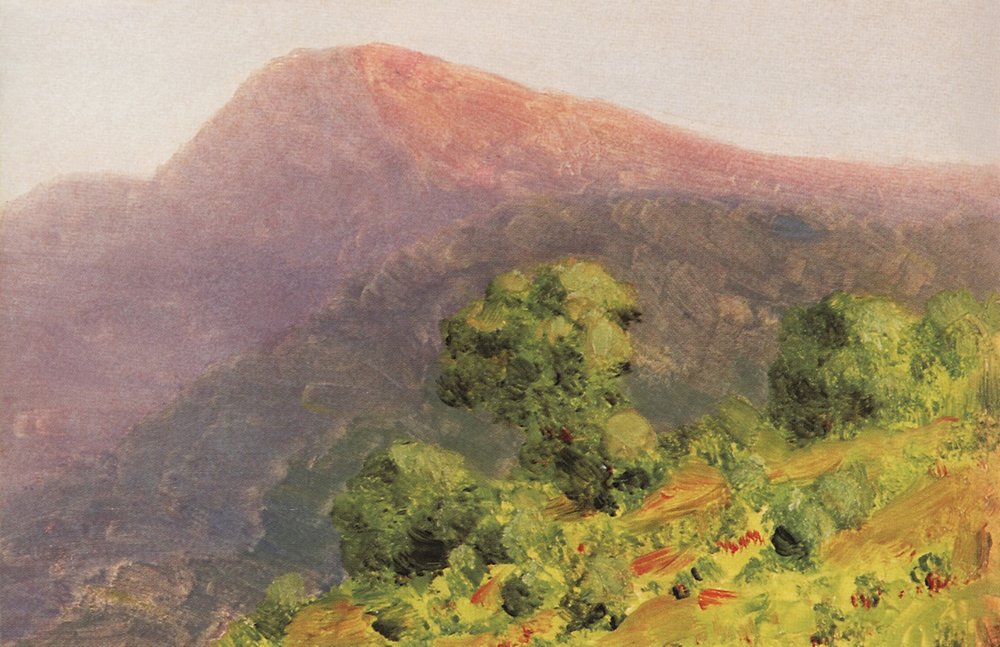 Mountains (painting by Arkhip Kuindzhi, 1885-1890)